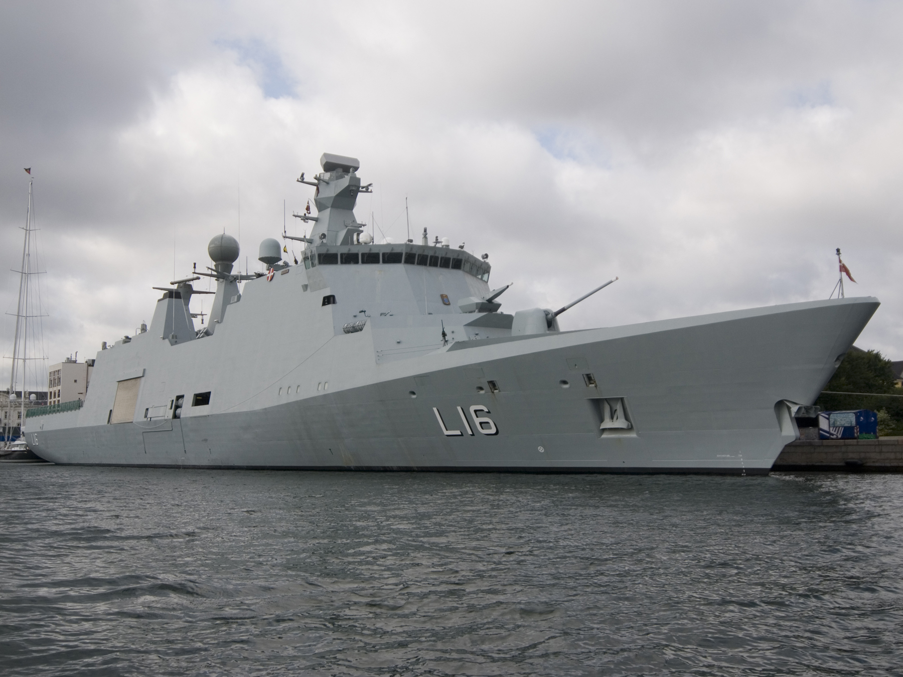 Danish navy L16 Absalon (Absalon-class command and support ships) dockside in Copenhagen